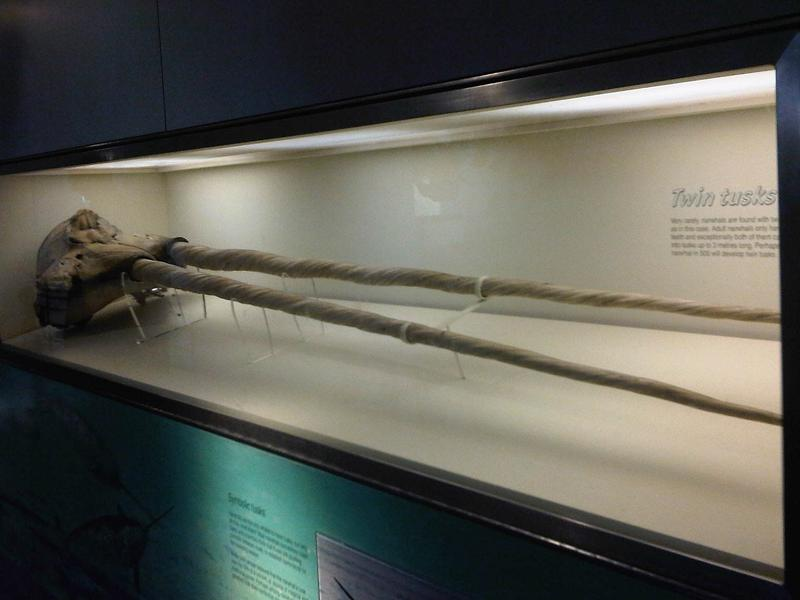 Narwhal (Monodon monoceros) skull with two tusks at the Natural History Museum in London, England.